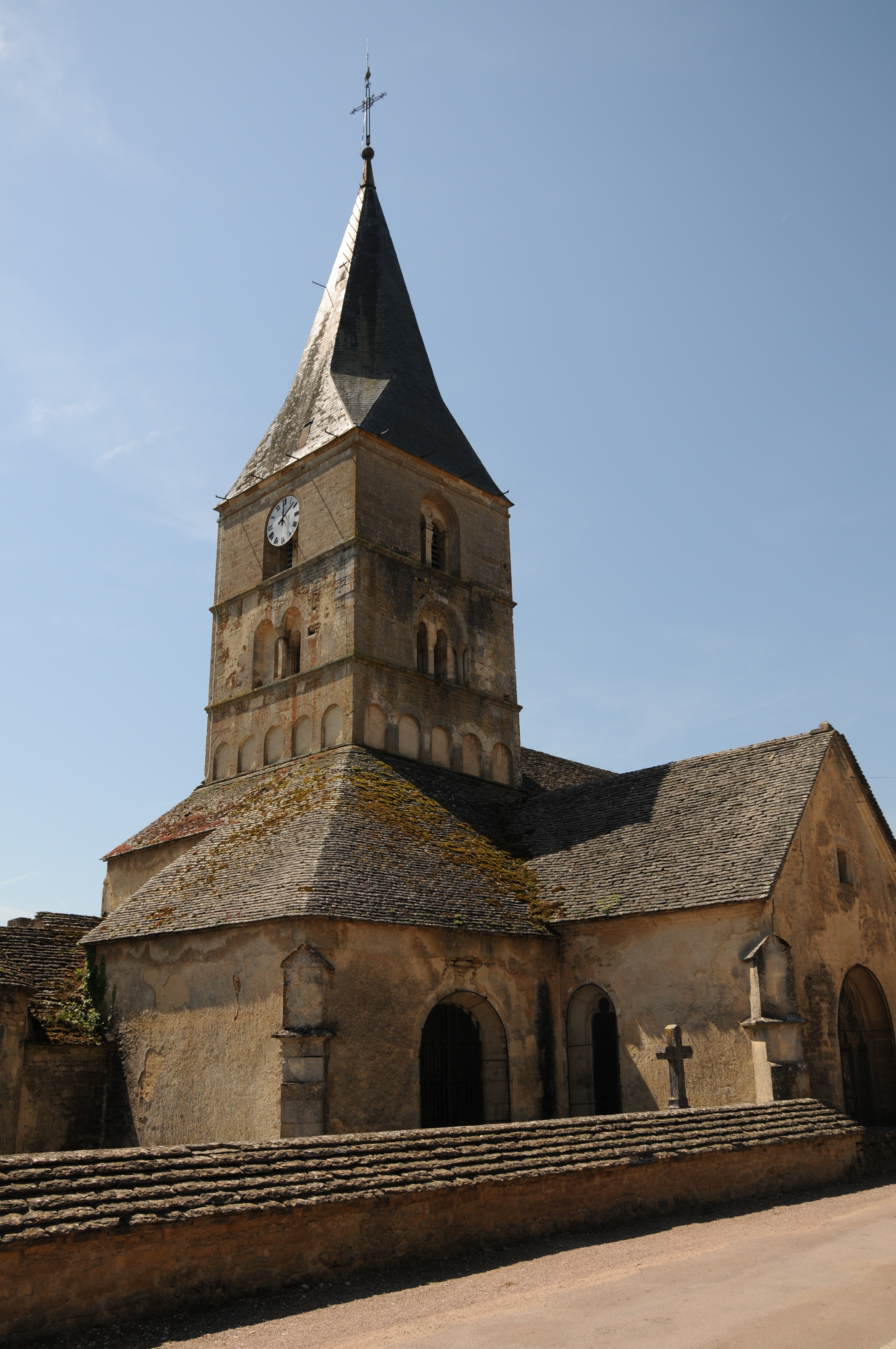 The church St. Antonin Bussy-le-grand, Burgundy, France